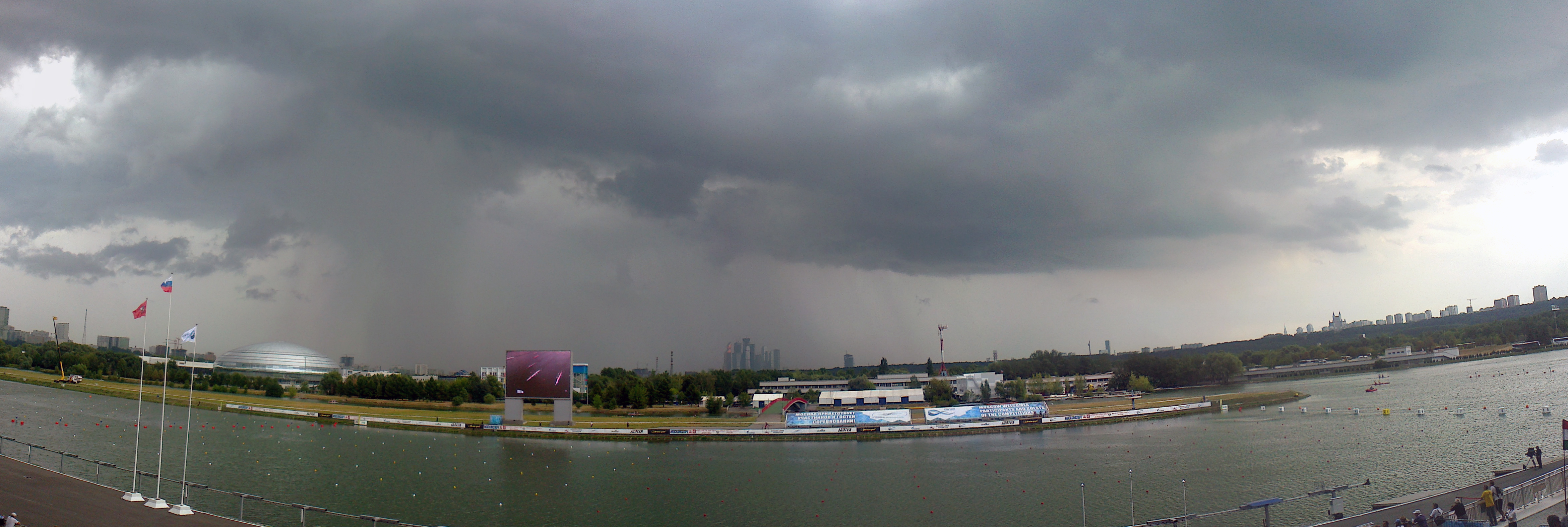 2014 ICF Canoe Sprint World Championships. Krylatskoye Rowing Canal on August 8, 2014